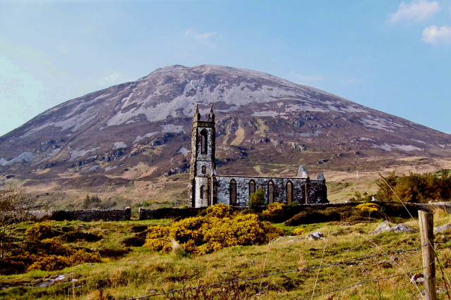 Dunlewy - Derelict church with walled yard & gate A gate along the road off R251 to this area permits access into the walled churchyard for a closer examination of this derelict church. This is another great place to spend some quality time.